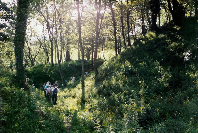 Mannan Castle, Co. Monaghan County Louth Archaeological and Historical Society members in the fosse of Mannan Castle, a large motte and bailey erected in the 1190s by the Pipards.